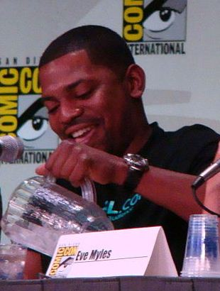 Torchwood cast member Mekhi Phifer San Diego Comic-Con International.